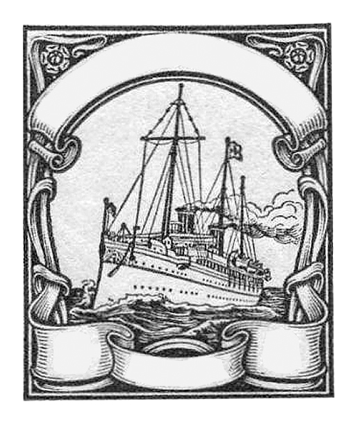 Artist's rendering of a blank "key plate" used to print "Yacht issue" postage stamps for German Imperial overseas colonies.